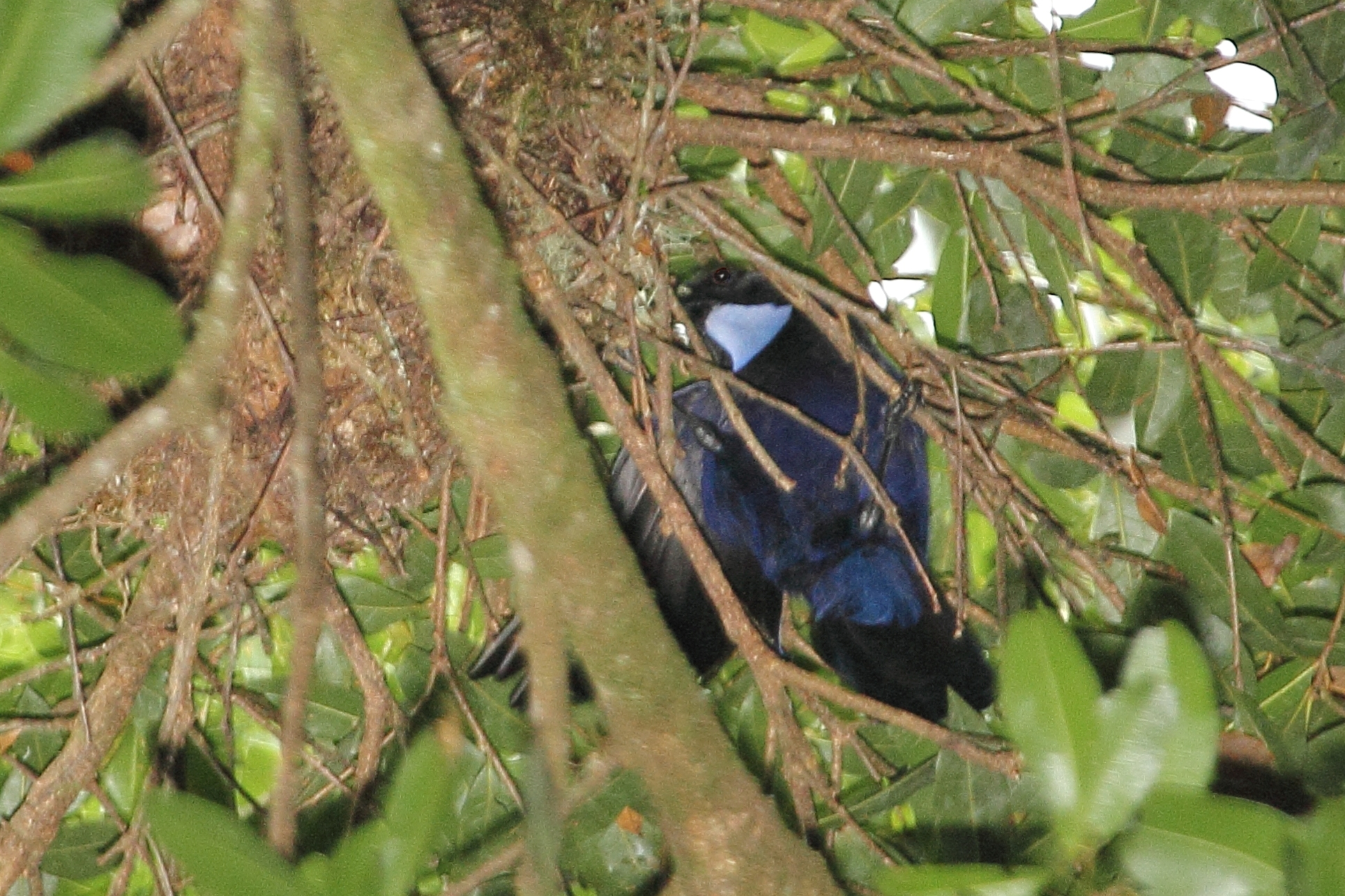 Silver-throated Jay (Cyanolyca argentigula). Photographed at Savegre, in Costa Rica. Nest shown to the left of the bird.